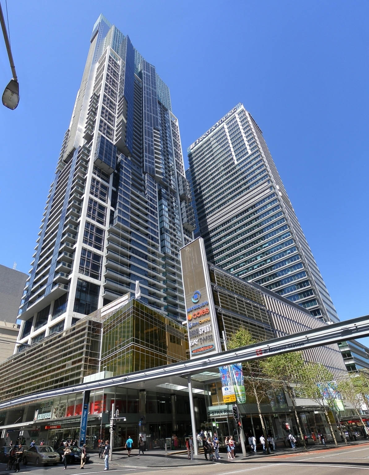 World Square building in Sydney cbd